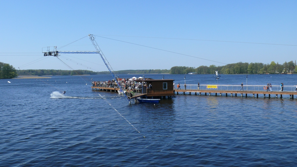 Cableski in Szczecinek, Poland